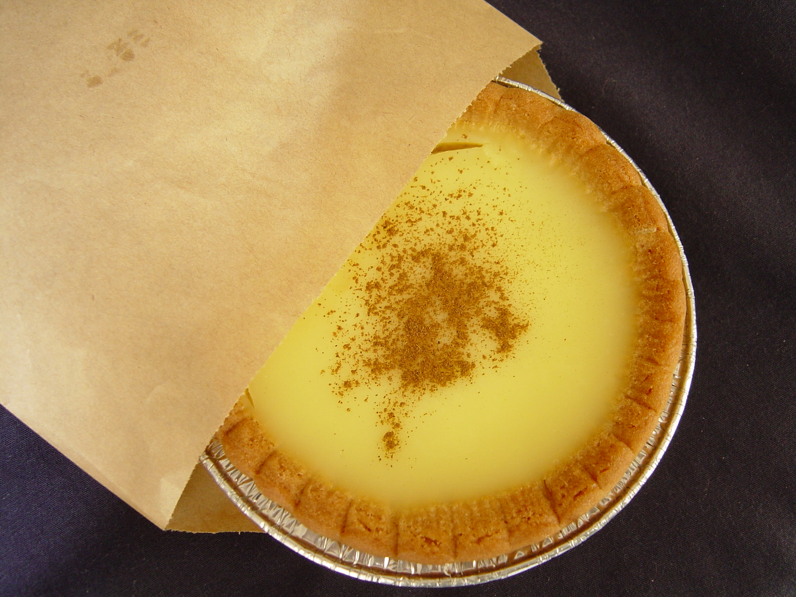 A lot of our cool little traditional kiwi bakeries are run by immigrants, particularly from Cambodia. They differ from the fancier French and Italian bakeries in that they aren't that fancy. It's just good ol' comfort food. I mean...custard in a pie shell...what could be more satisfying? We used to live next to this place that has the best custard tarts ever. It's still only a 10 minute walk from our current place so it seemed like the right thing to do on a Saturday afternoon.